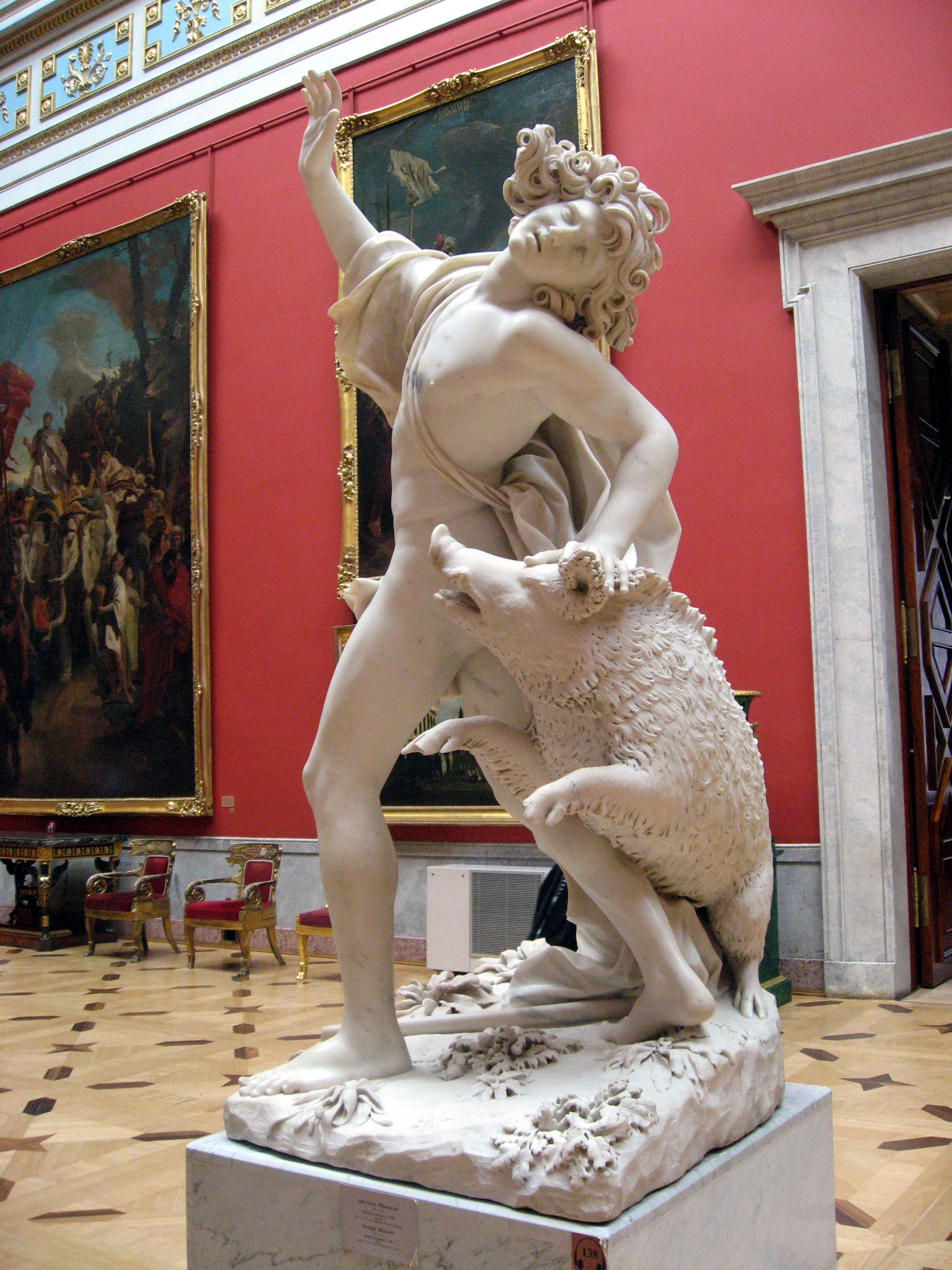 Ermitáž